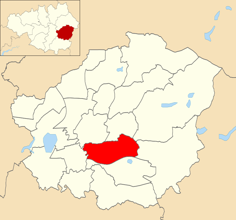 Map showing location of Hyde Newton Ward within Tameside Metropolitan Borough Council.